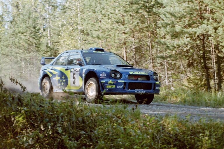 World Rally Championship WRC Rally Finland 2001